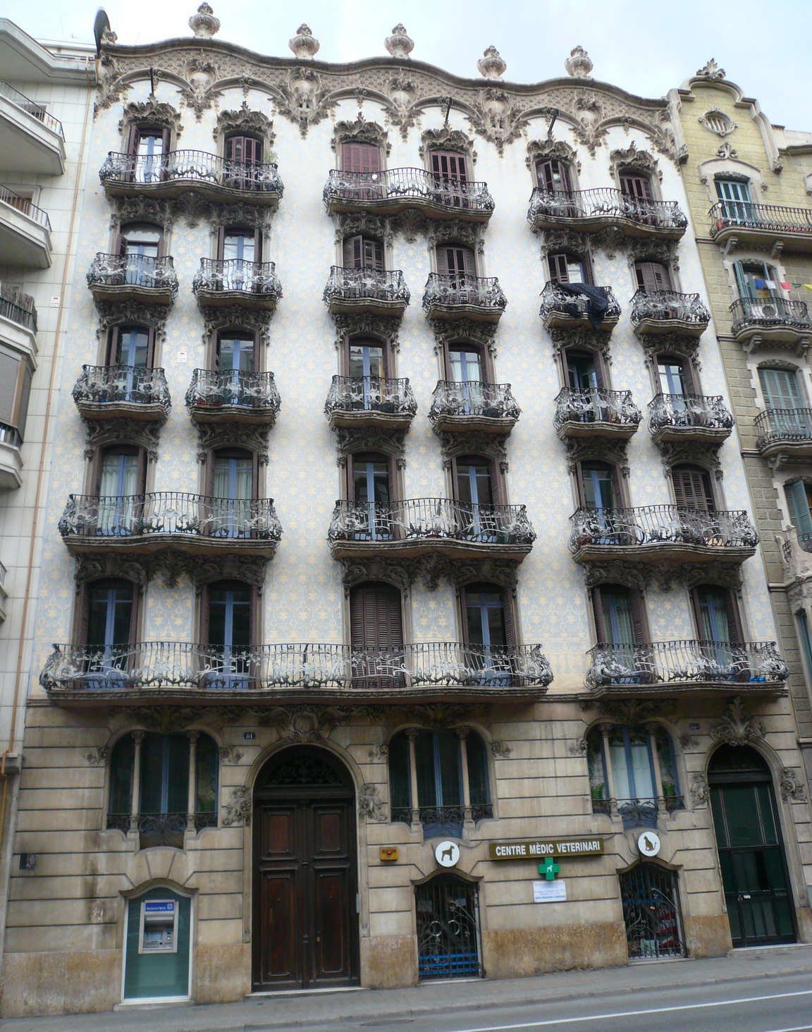 Casa Pons i Trabal, Balmes 81, Barcelona. Architect Joan Baptista Pons i Trabal (1908)